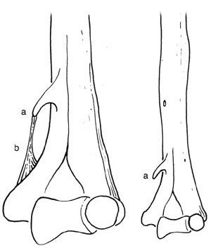 Diagram by Sir John Struthers of the Ligament of Struthers, "On some points in the abnormal anatomy of the arm".